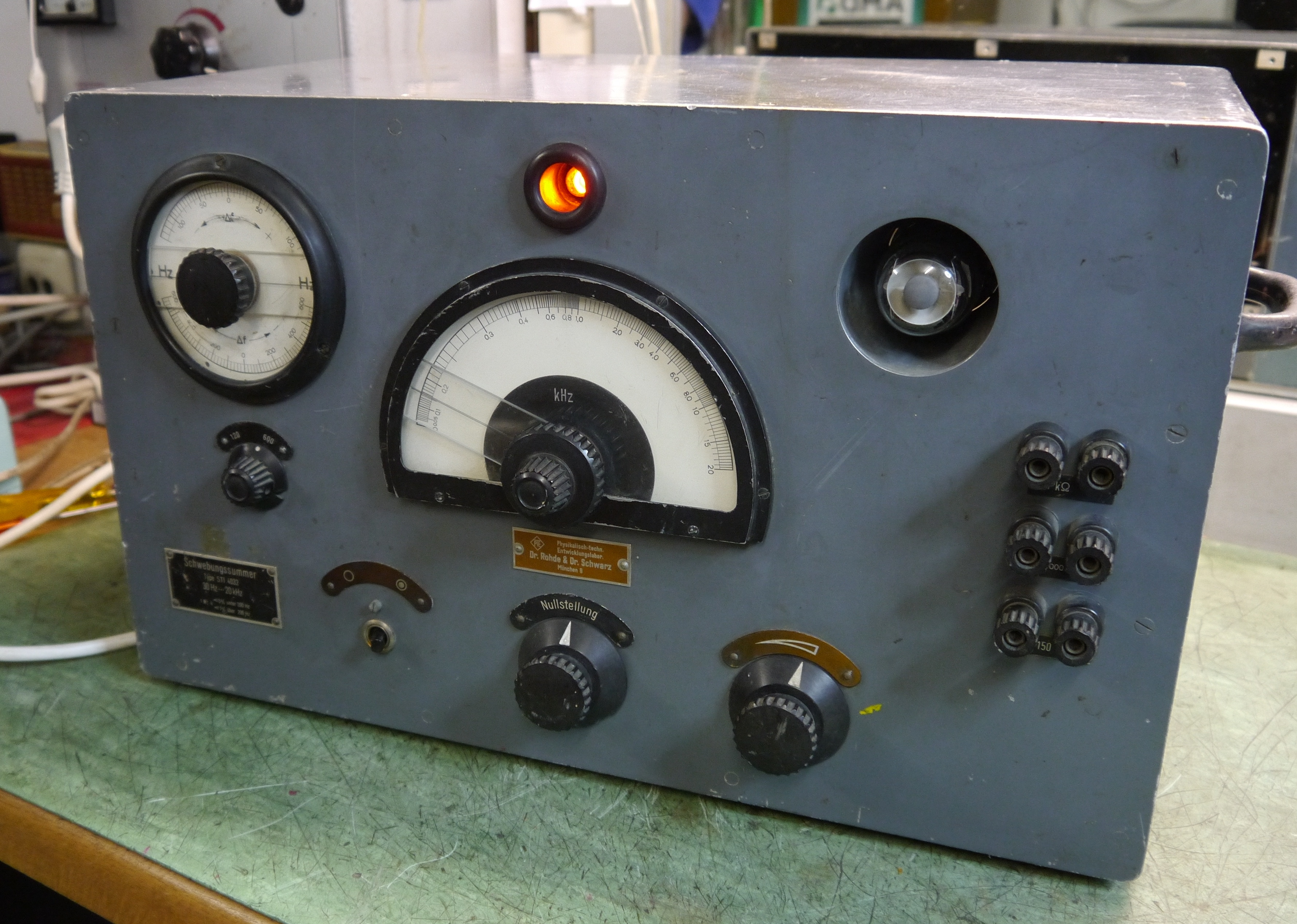 Rohde und Schwarz Beat Frequency Oscillator STI 4032 manufactured in 1944. Unit in operation, magic eye is not on. The unit has 7 tubes: AH1; RL12P10; AZ11; STV280; and 3 EF12